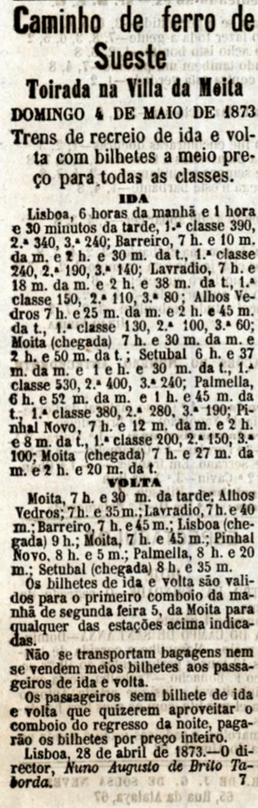 Advertisement of the Caminho de Ferro do Sueste (Portuguese Southeastern Railway) for special trains at reduced prices from Lisbon (boats to Barreiro) and Setúbal to Moita, for a bullfighting event. This image was published on the Diario Illustrado newspaper No. 285, of 30th April 1873, and scanned by the Biblioteca Nacional de Portugal.